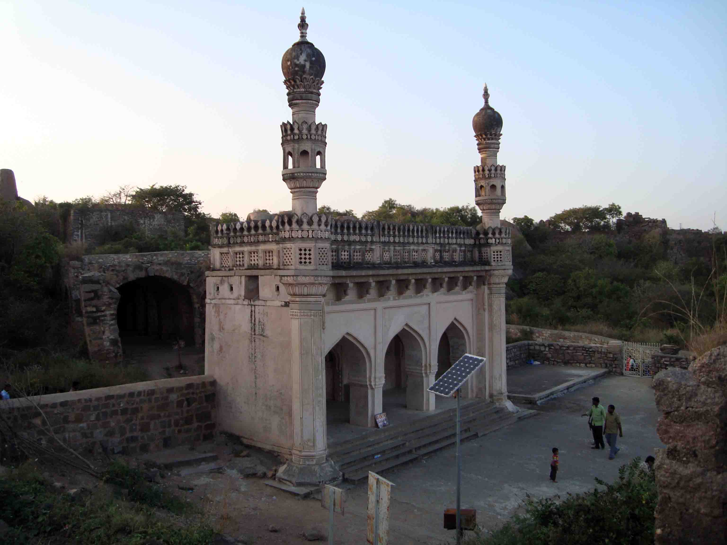 Golkonda Fort, Fortifications